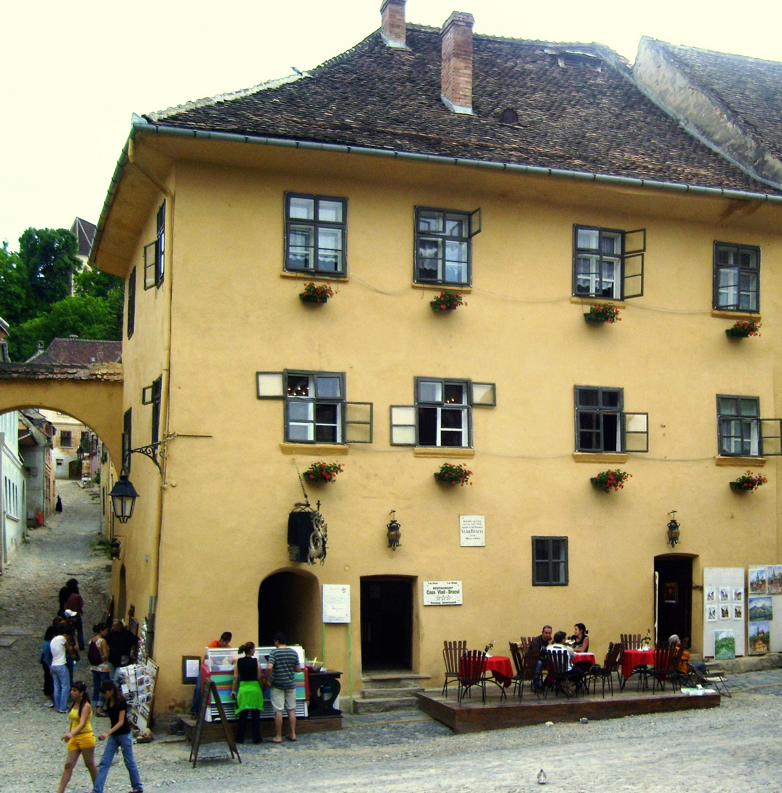 Born house of Vlad Tepes Dracula in Sighişoara (Transylvania, Romania)